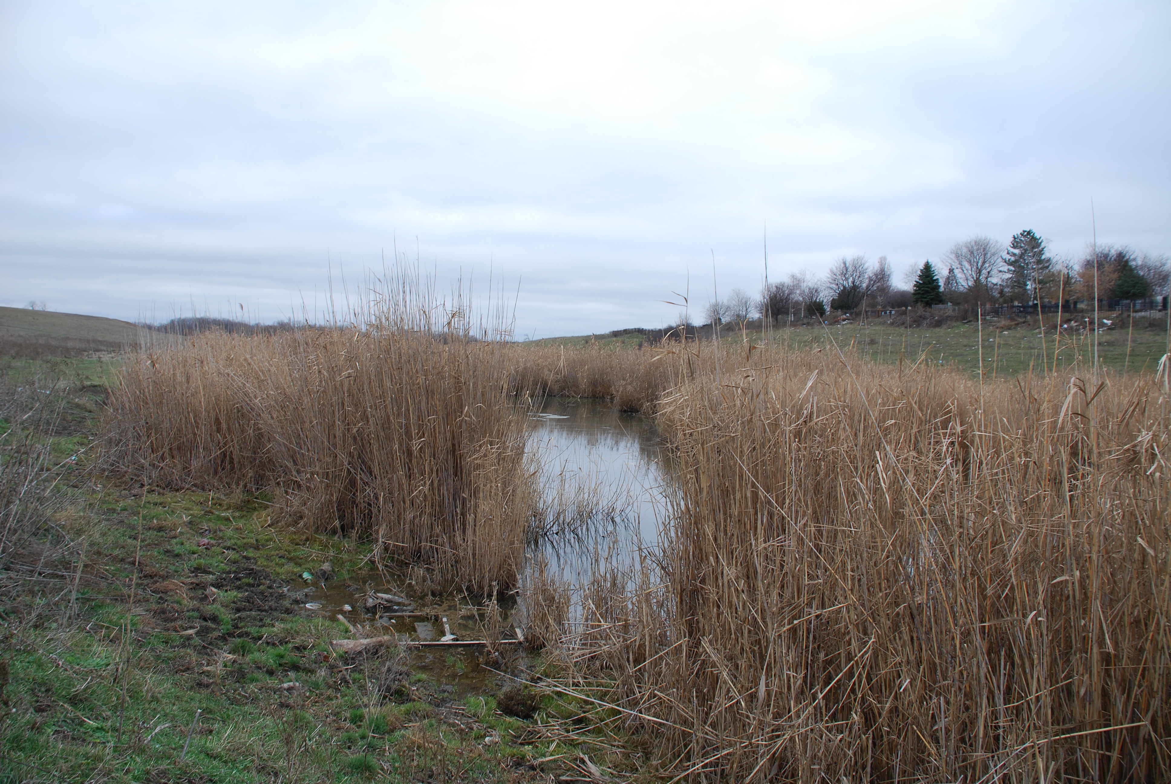 Khavaly River in Sultan-Saly.